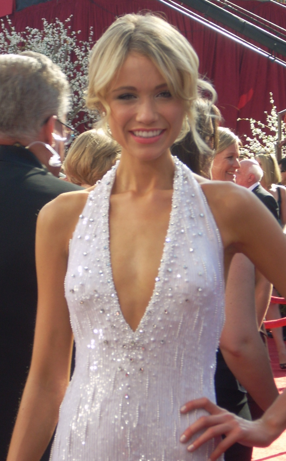 Actress Katrina Bowden at the 60th Annual Emmy Awards, Nokia Theater, Sept. 21, 2008